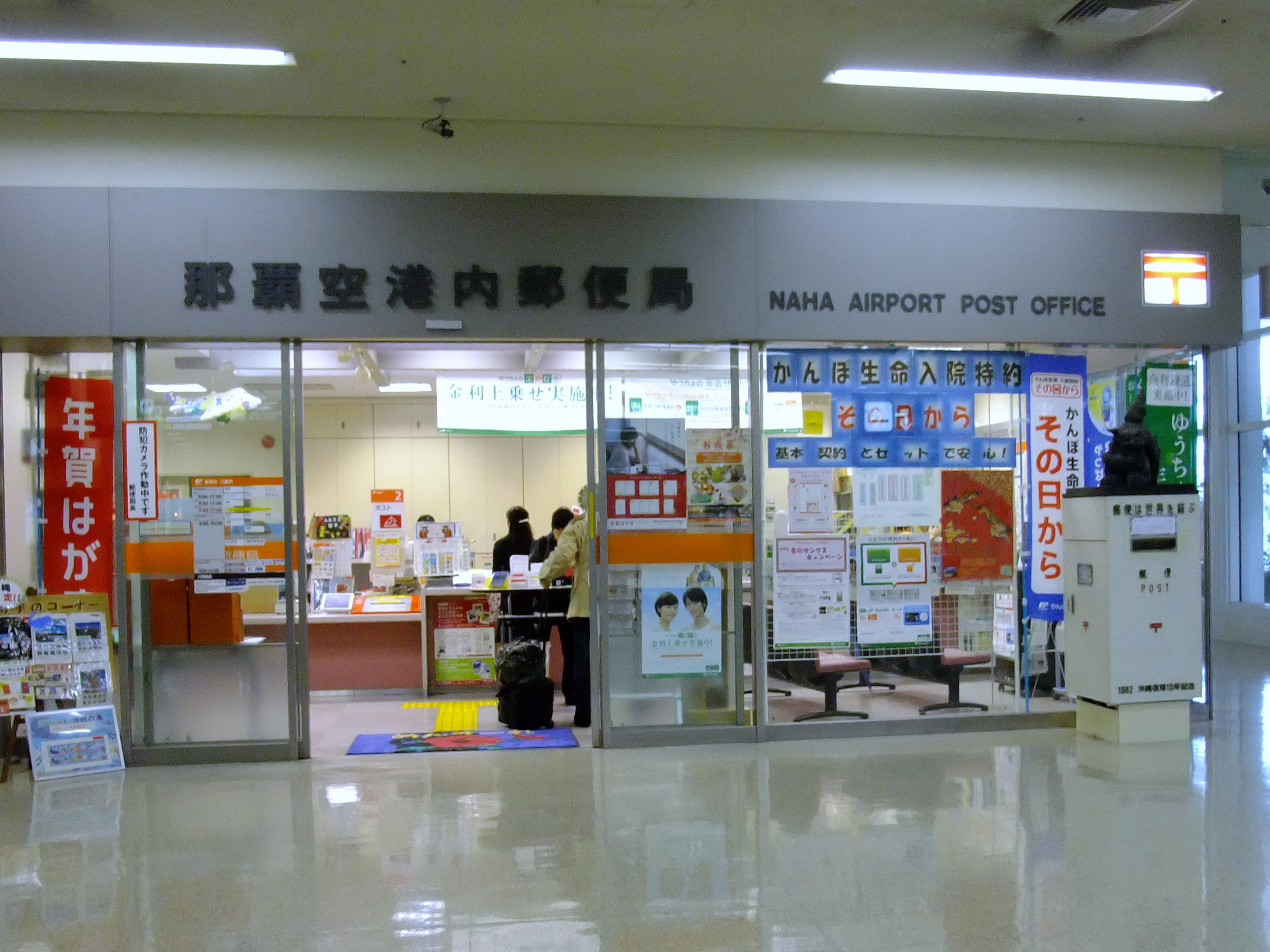 View of the Naha Airport Post Office, Naha, Okinawa